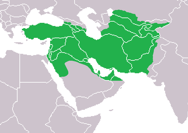 The Conquests of Cyrus the Great.